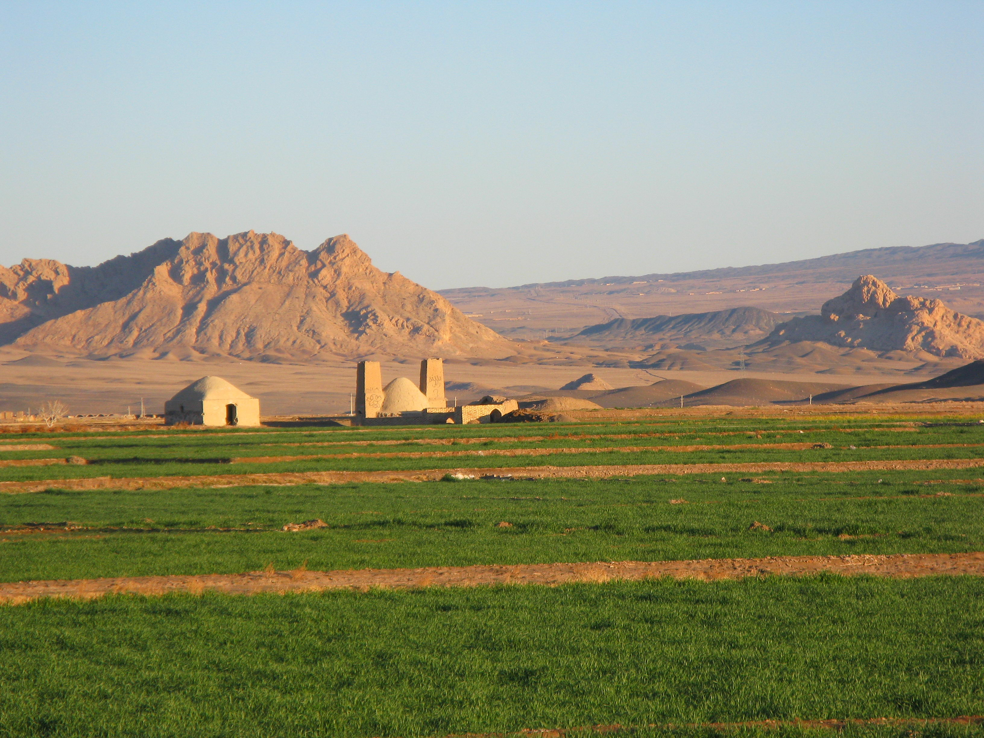 کشاورزي نائين